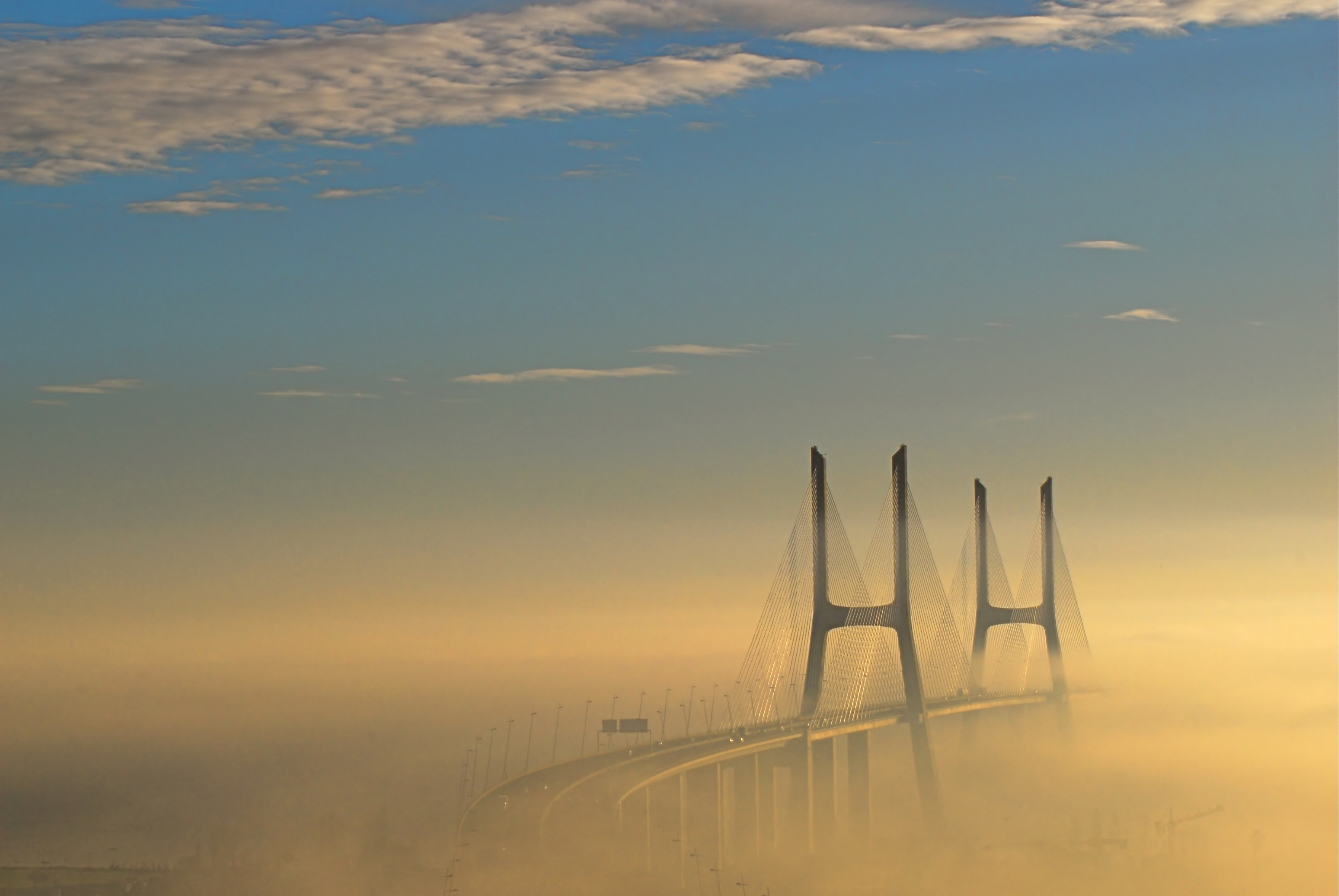 Vasco da Gama Bridge, Lisbon, Portugal. Winner of the contest "From my window" of the Ilustrar Portugal group. 2nd place of the Bridge challenge of the Lonely Planet Publications Flickr group. See all challenge photos here. Main credits to the window.